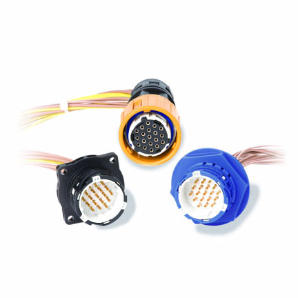 This is the ITT APD 19 group of connectors